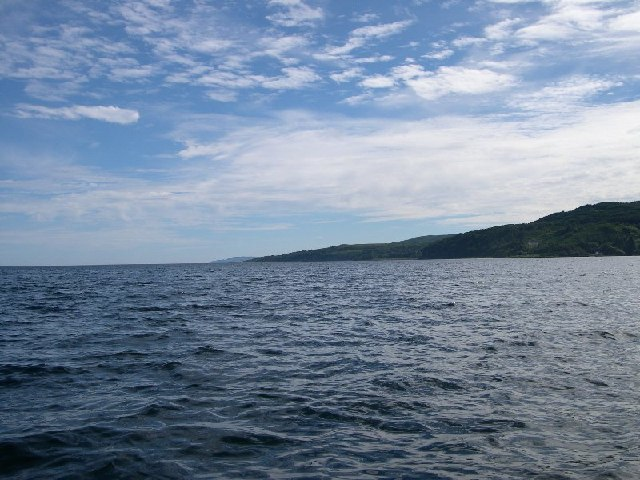 Looking south along the Kintyre Peninsula, from Torrisdale Bay. Looking south from a boat in Torrisdale Bay towards Saddell Bay, you can see in the foreground Eilean Leathan. Harbour Porpoise and Bottlenosed Dolphins are commonly sighted here.